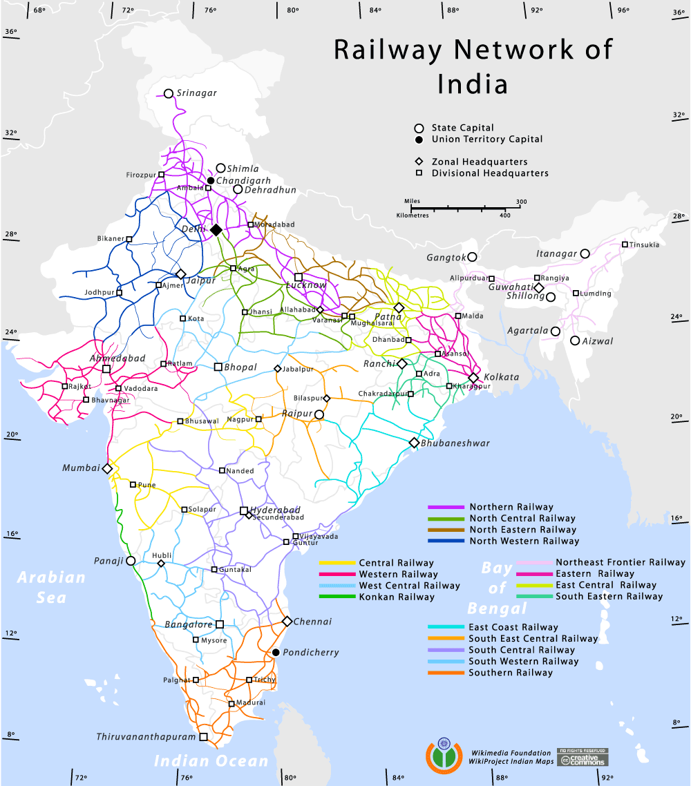 Railway network map of India by Planemad.